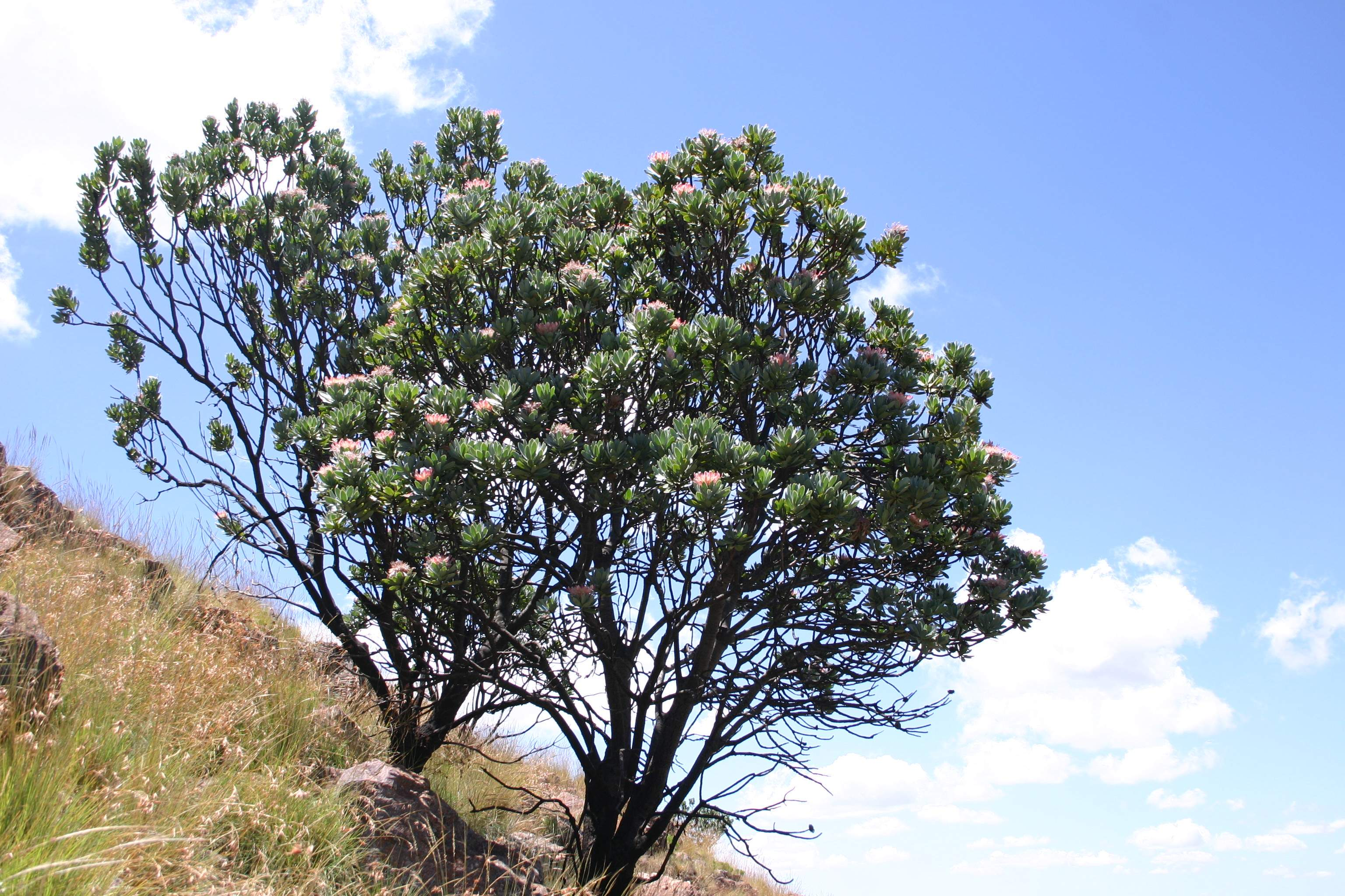 Protea roupelliae, Krantzberg in the Transvaal Waterberg